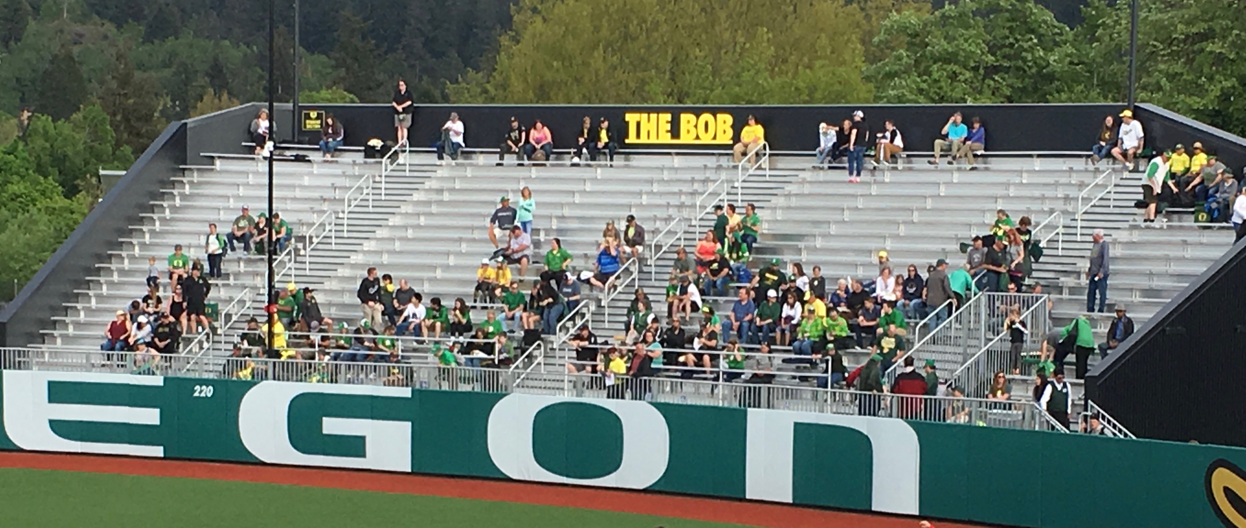 General admission seating at Jane Sanders Stadium, nicknamed The Bob for donor Bob Sanders